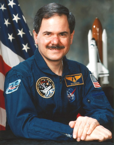 portrait astronaut Ronald Parise